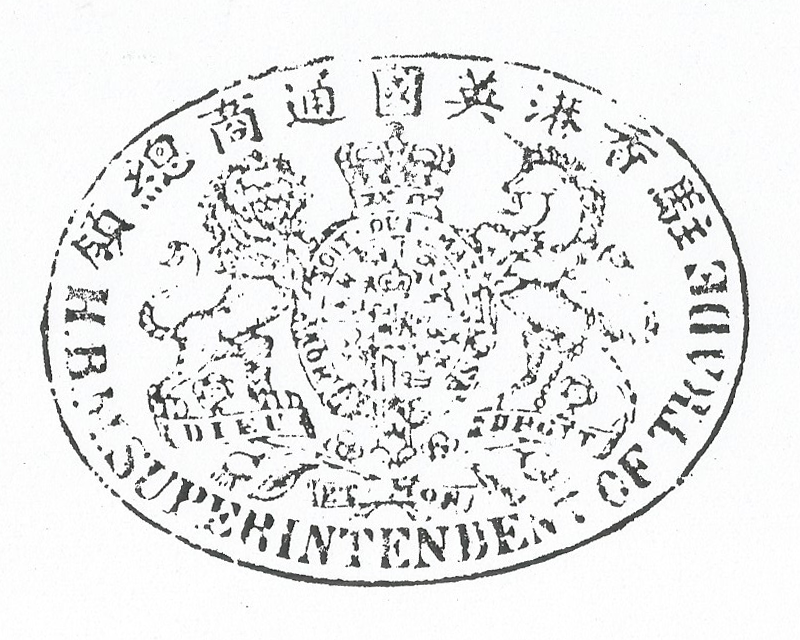 The Chief Superintendent's Seal (1841)